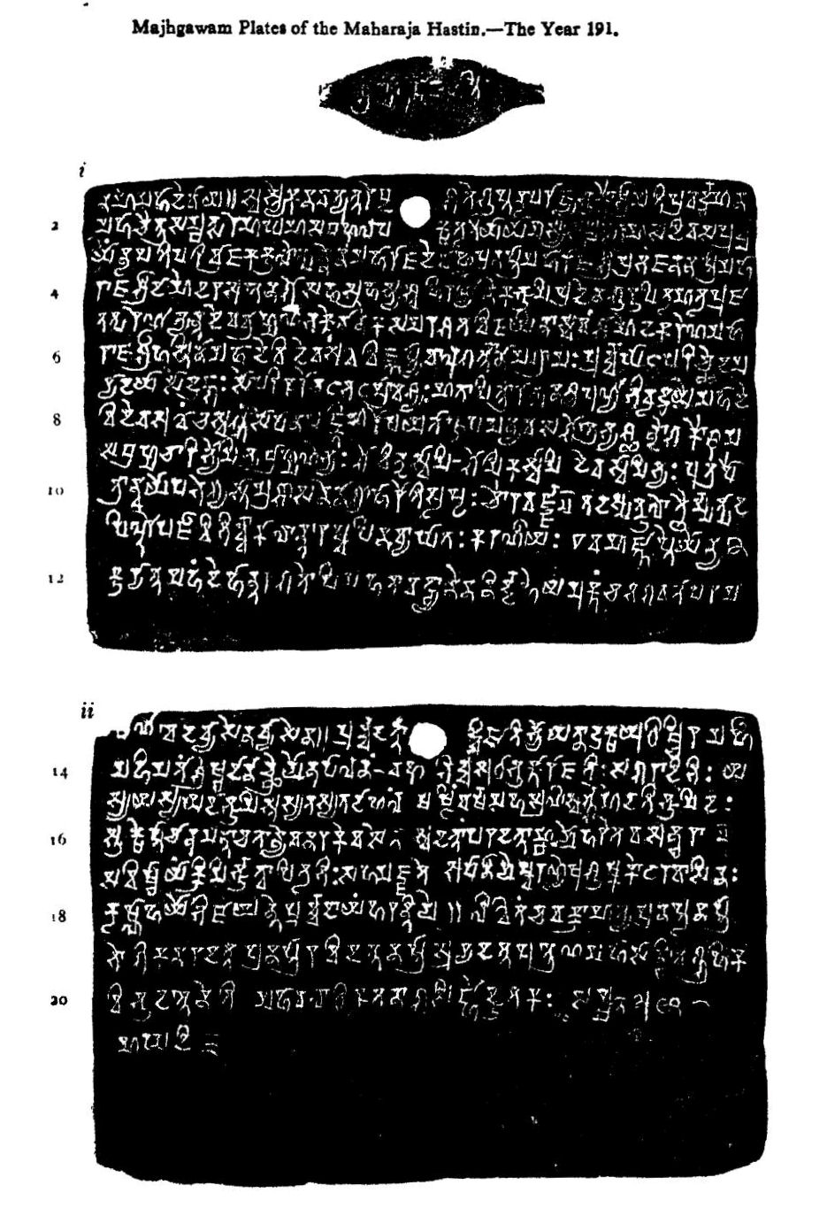 Majhgawam plates of Maharaja Hastin